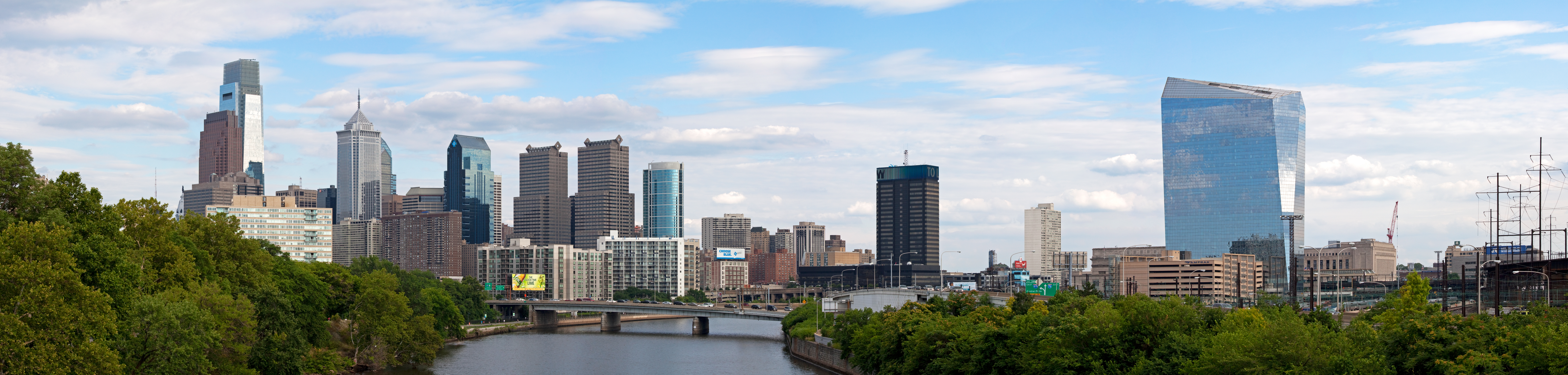 The skyline of Pennsylvania's largest city Philadelphia. Visible are Center City with the Comcast Center on the left bank of the Schuylkill River and the 30th Street Station with the Cira Centre on the right. The resolution of the original photograph is 15000*3597.